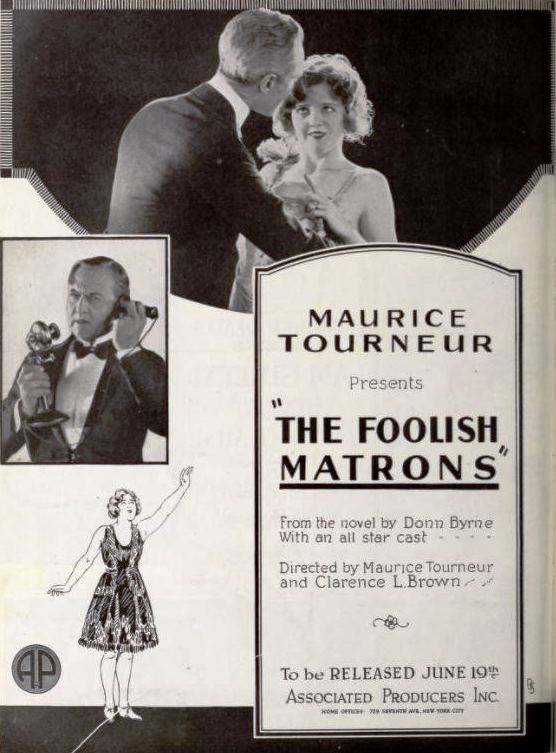 Advertisement for the American drama film The Foolish Matrons (1921) which had three stories, the actors are not identified, on page 12 of the May 28, 1921 Exhibitors Herald.